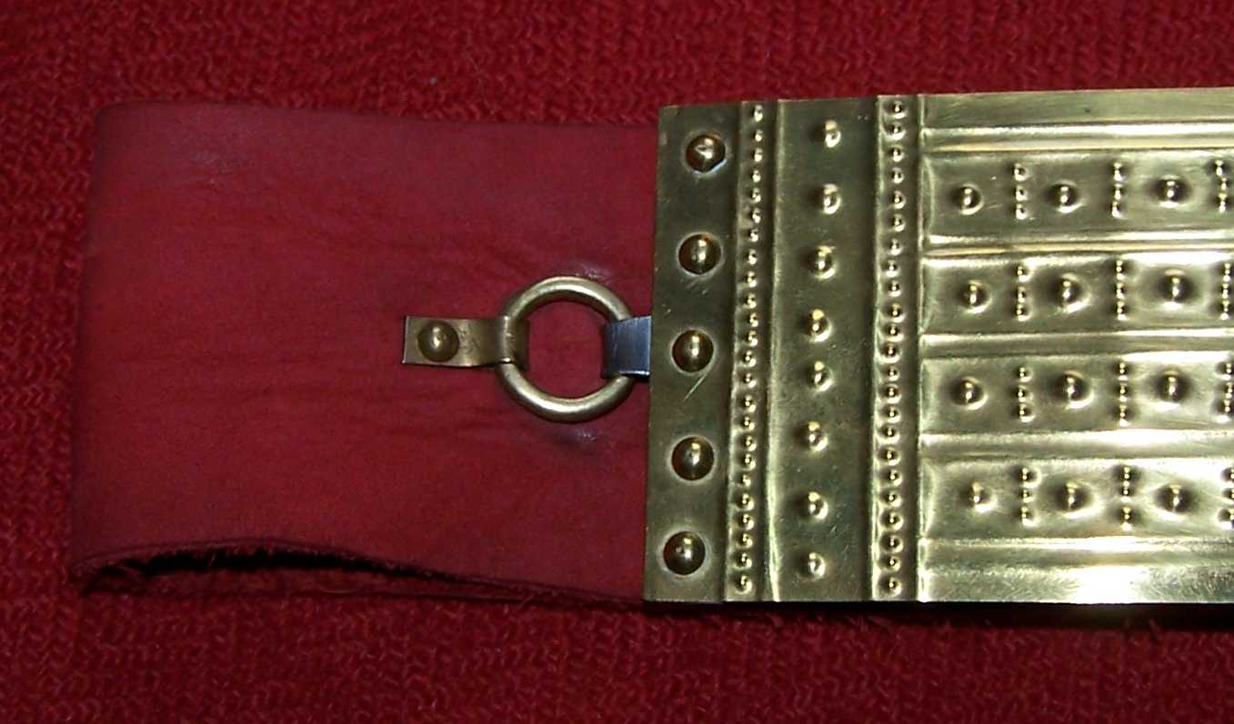 replica of the hallstatt beltplate (Guertelblech) from Hirschlanden, grave 11; done by Stefan Jaroschinski